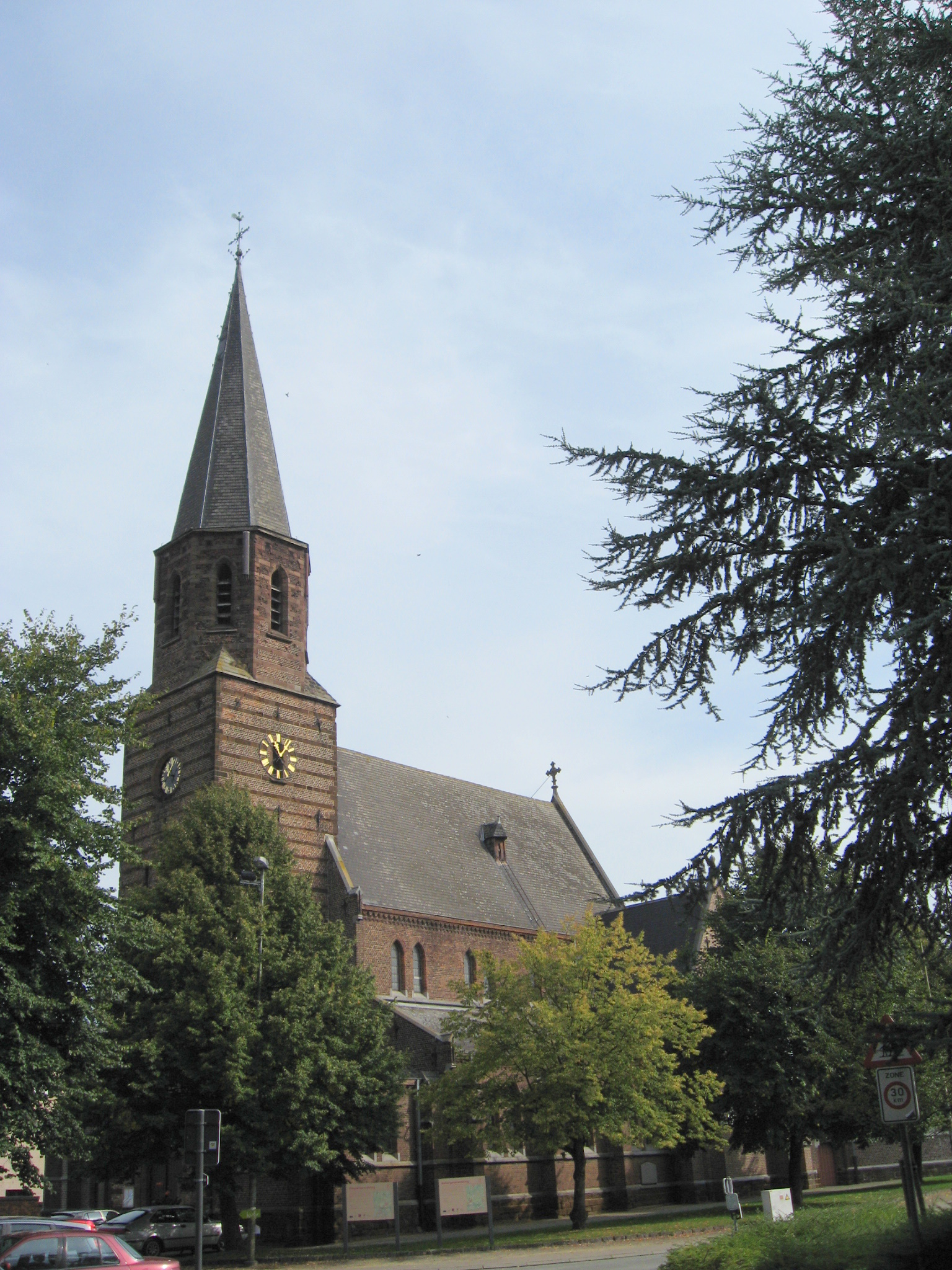 Church of Saint Hubertus in Schaffen, Diest, Flemish Brabant, Belgium